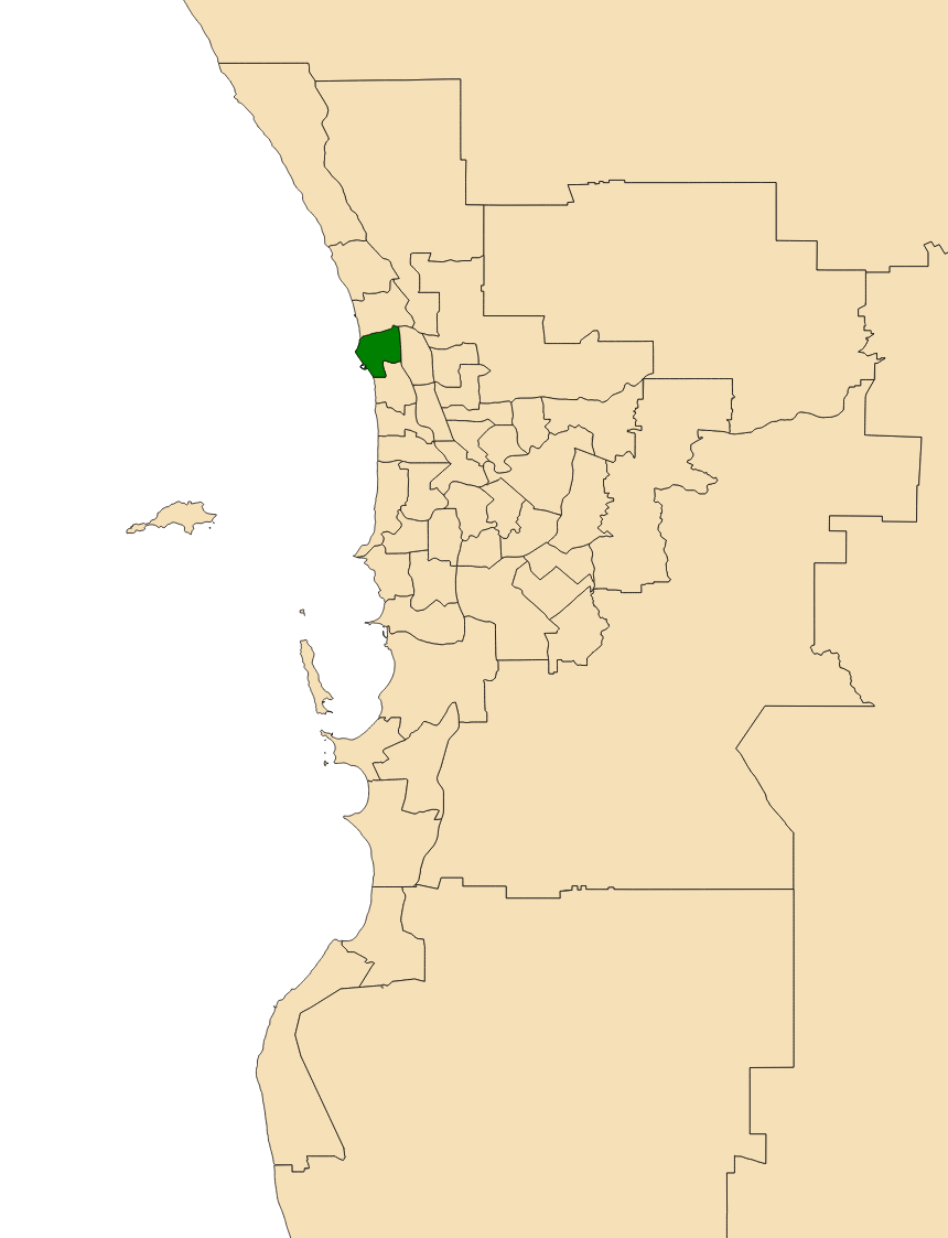 Location of the electoral district of Hillarys in the Perth metropolitan area, Western Australia as of the 2017 WA state election.